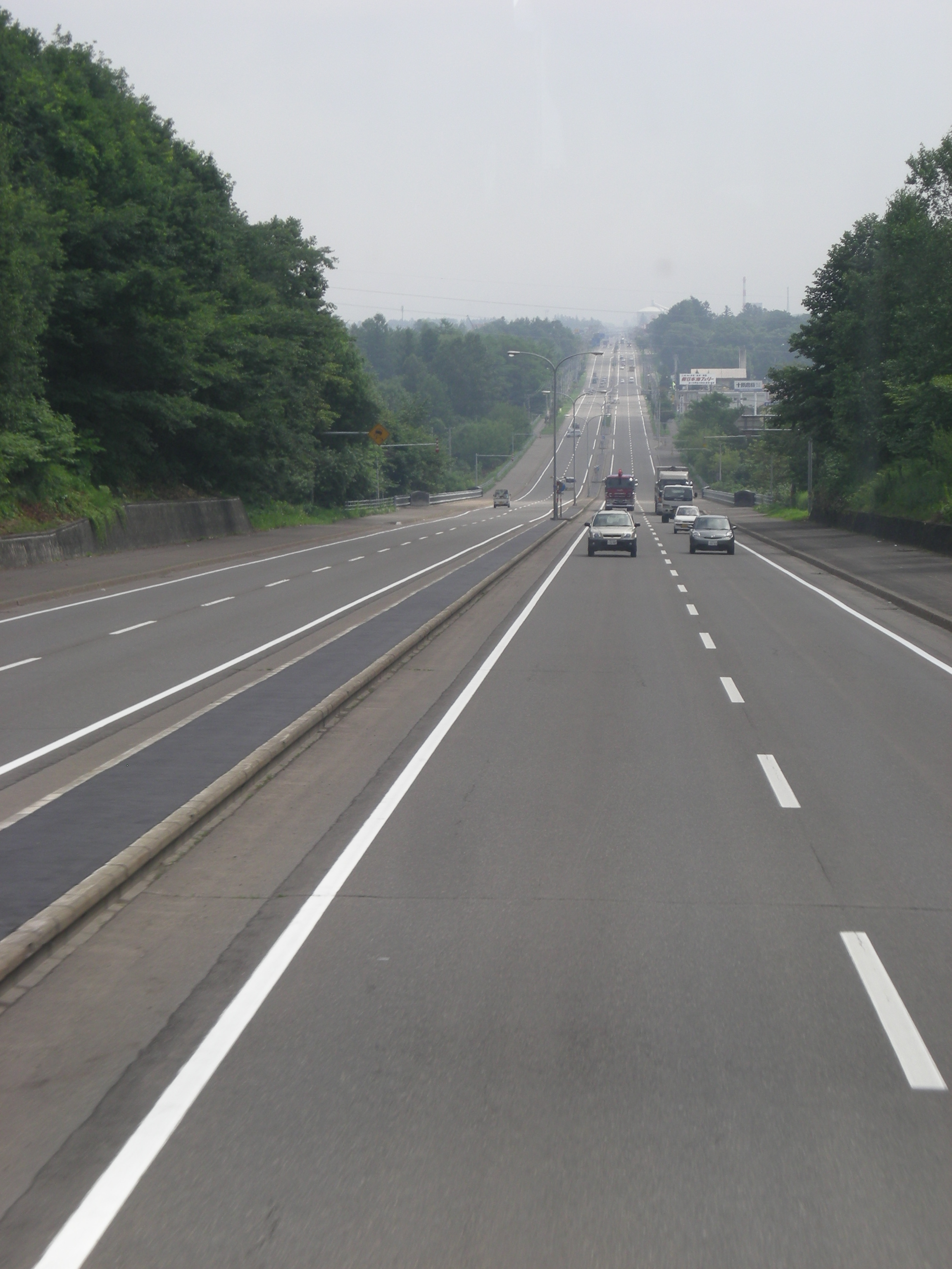 Route38-Memuro,Hokaido,Japan